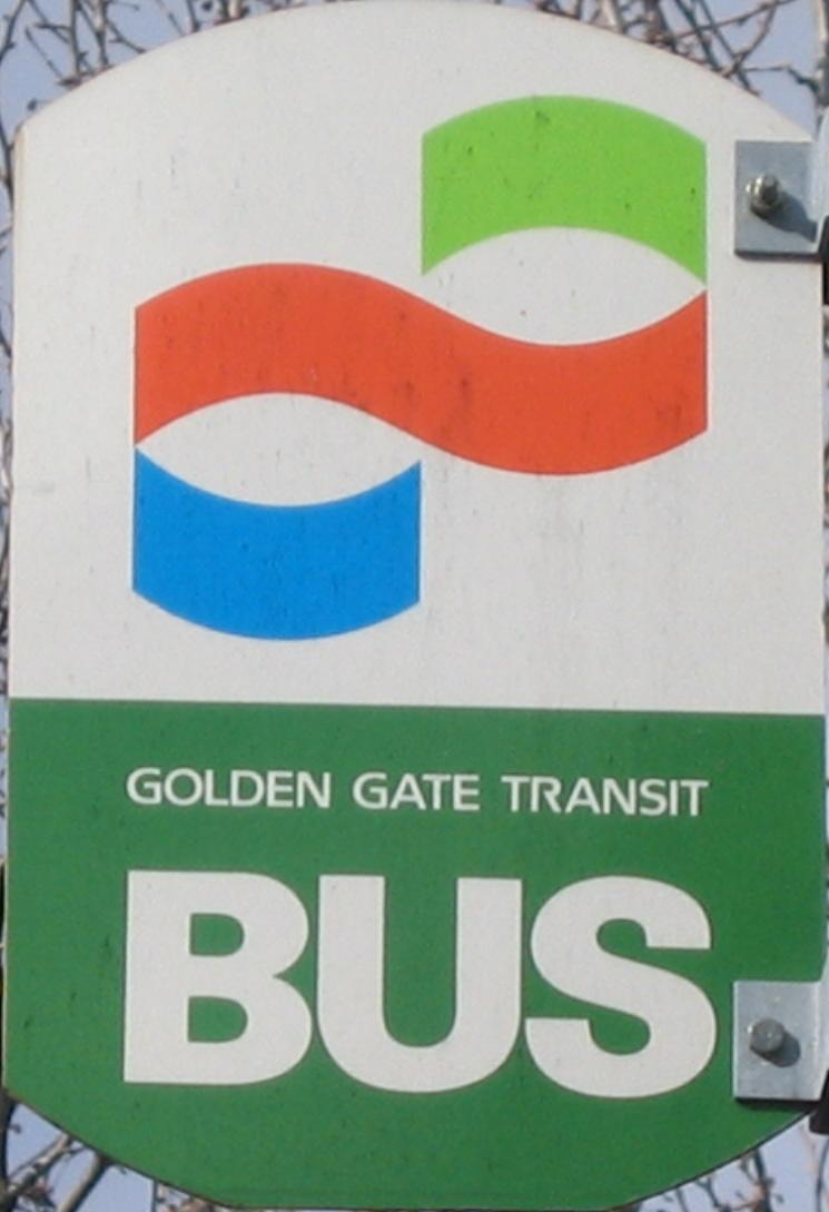 Old bus stop sign of Golden Gate Transit